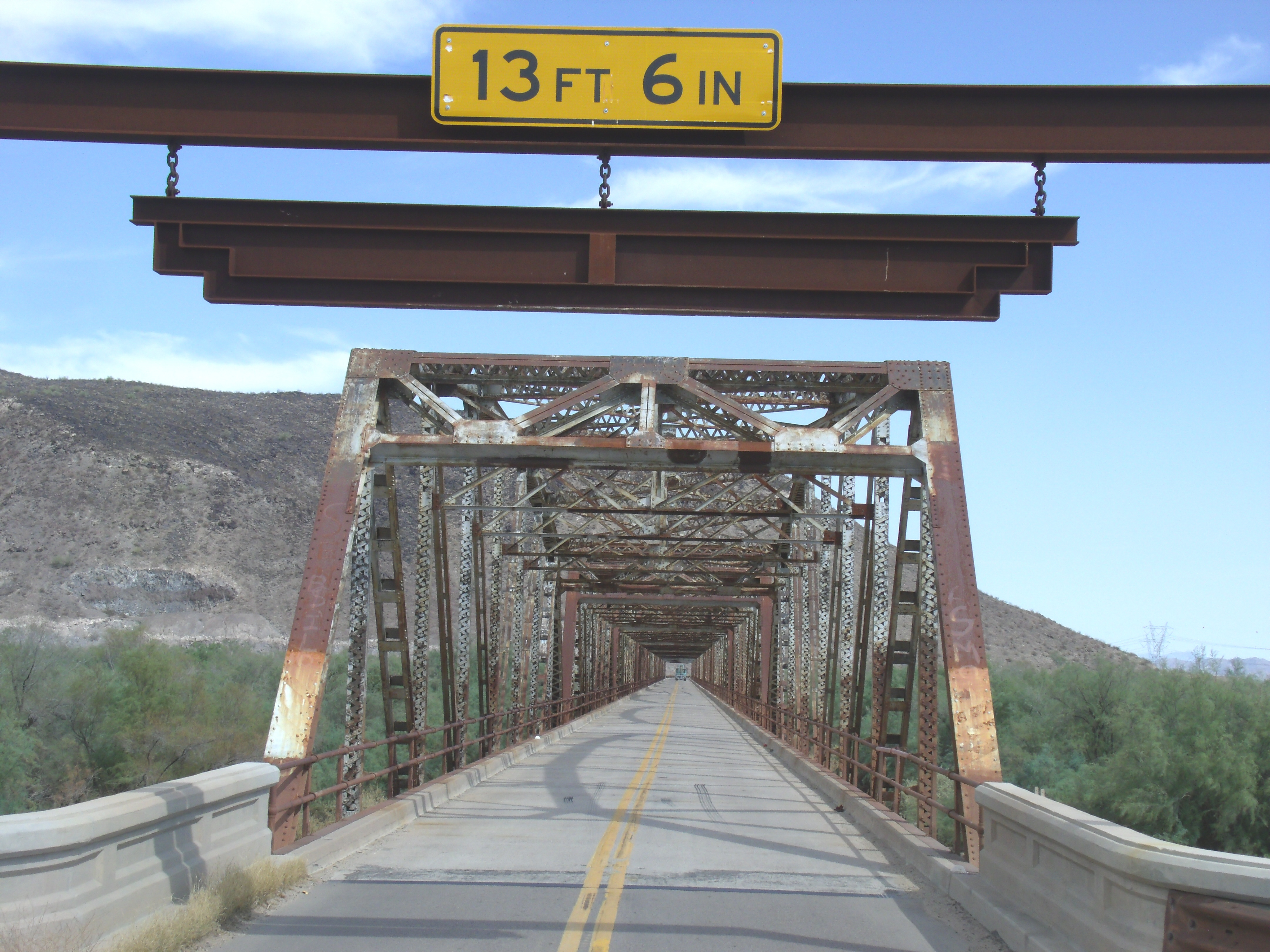 Front view of the historic Gillespie Dam Bridge which was built in 1927 over the Gila River and which is located on Old Highway 80 north of Gila Bend and south of Arlington between the Buckeye Hills and the Gila Bend Mountains in Maricopa County. The bridge was at the time the longest highway bridge in the state of Arizona. The bridge was listed on the National Register of Historic Places on May 5, 1981, reference #81000136.